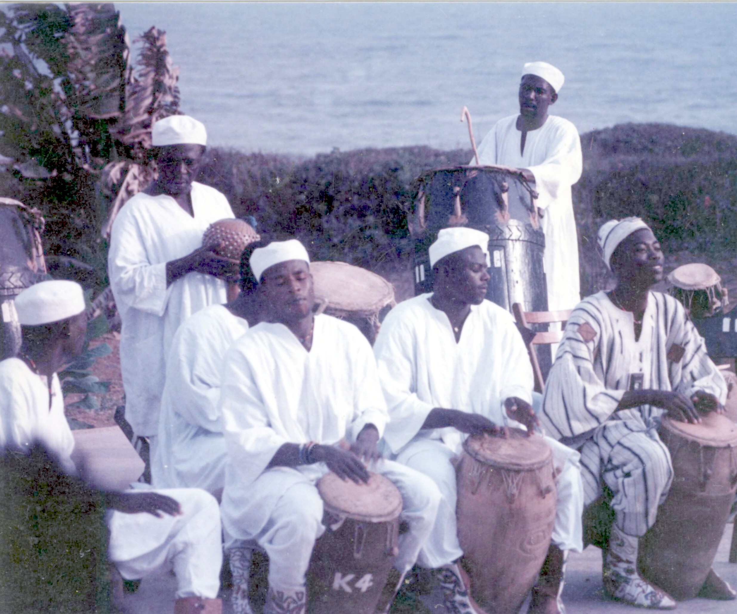 This is an image with the theme "Play" from: Ghana